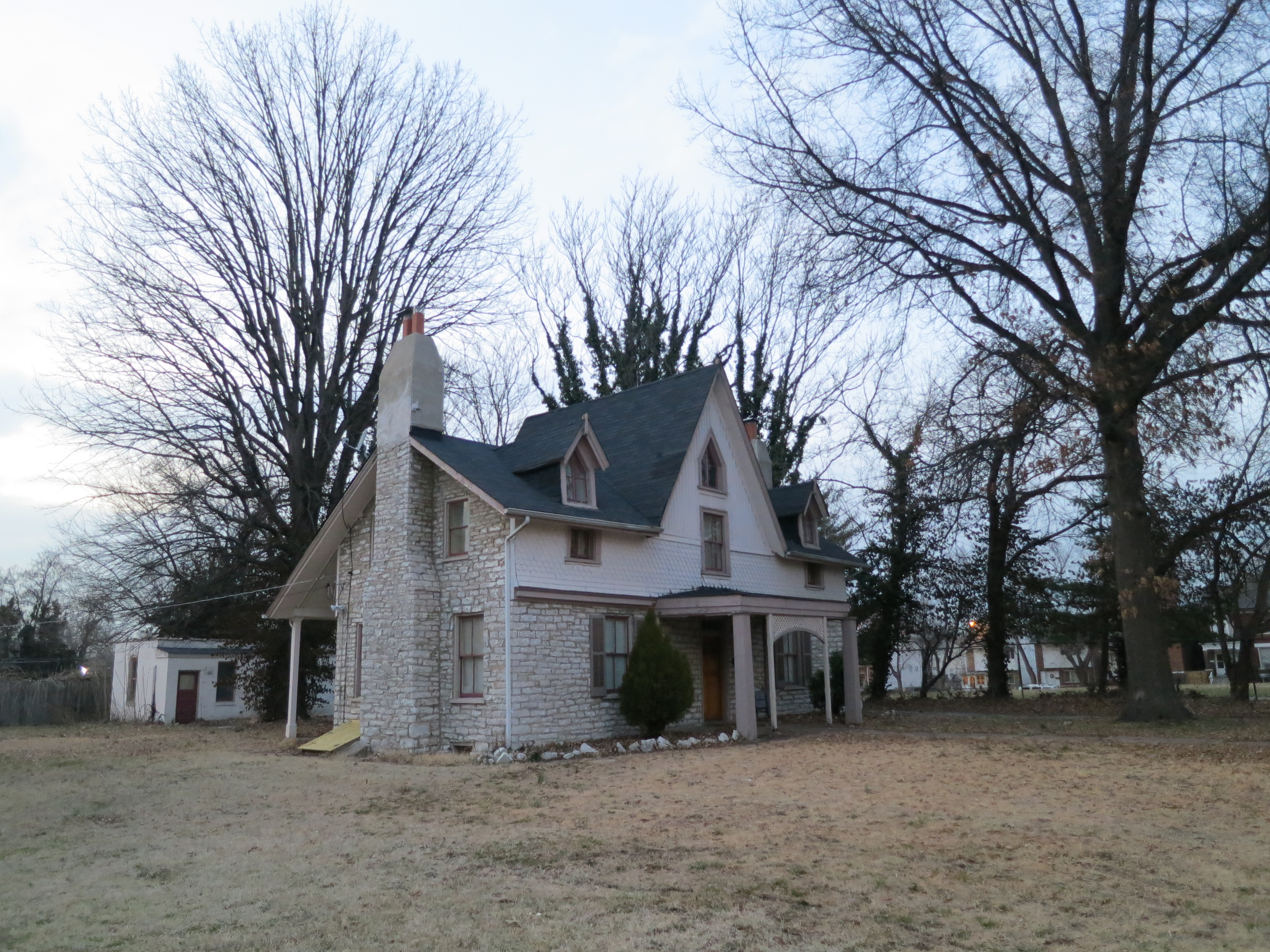 Second Oldest House in St. Louis (2)